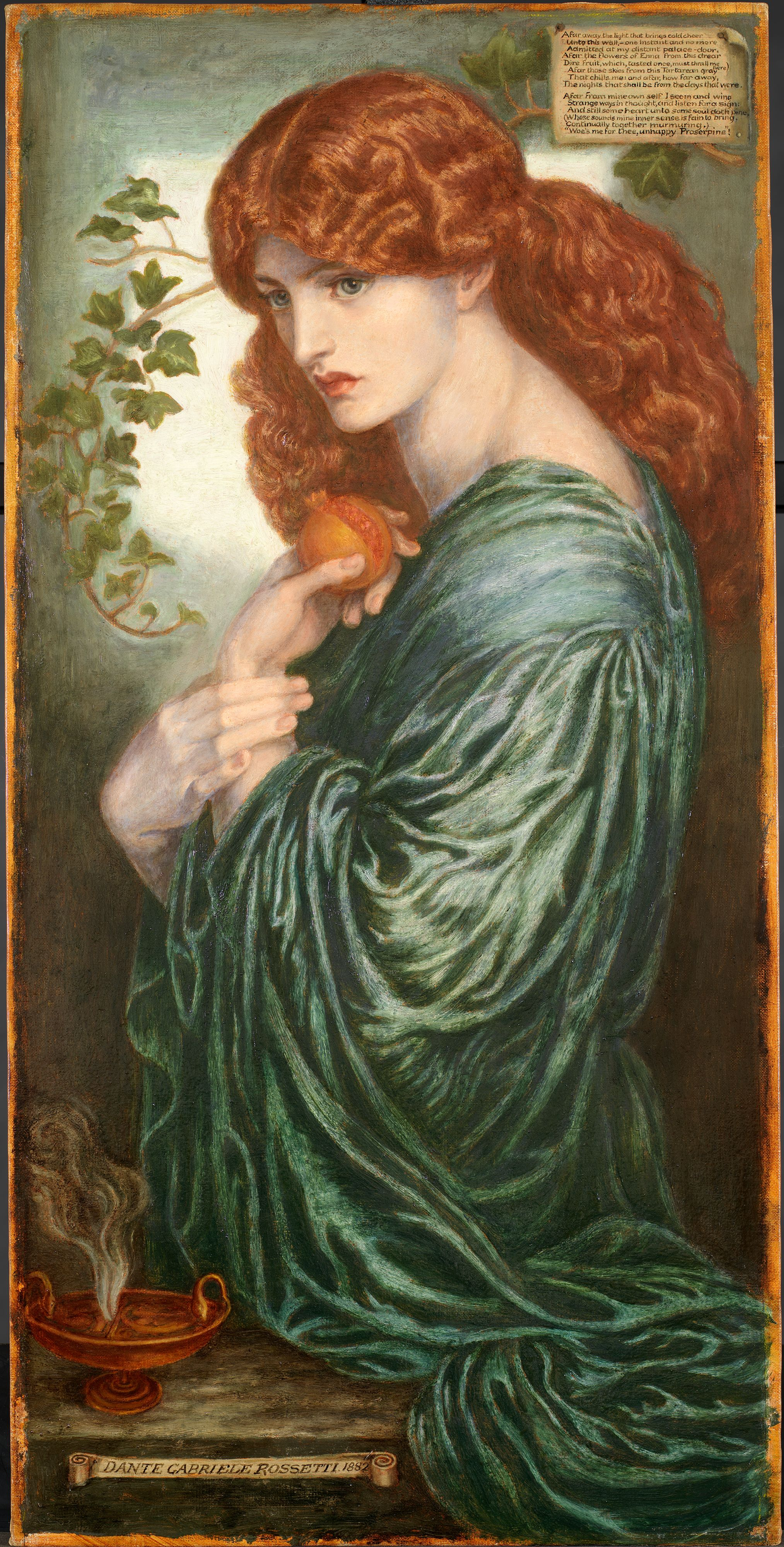 Eighth version of Rossetti's Proserpine at the Birmingham Museums and Art Gallery. From their website "This version was painted for L. R. Valpy Esq. as a copy, on a reduced scale, of the Tate version. It was finished at Birchington, just a few days before Rossetti's death."